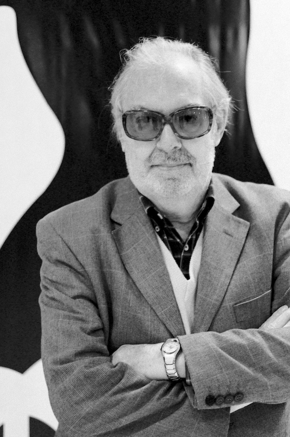 Photograph of Umberto Lenzi at the Sitges Film Festival, October 2008.